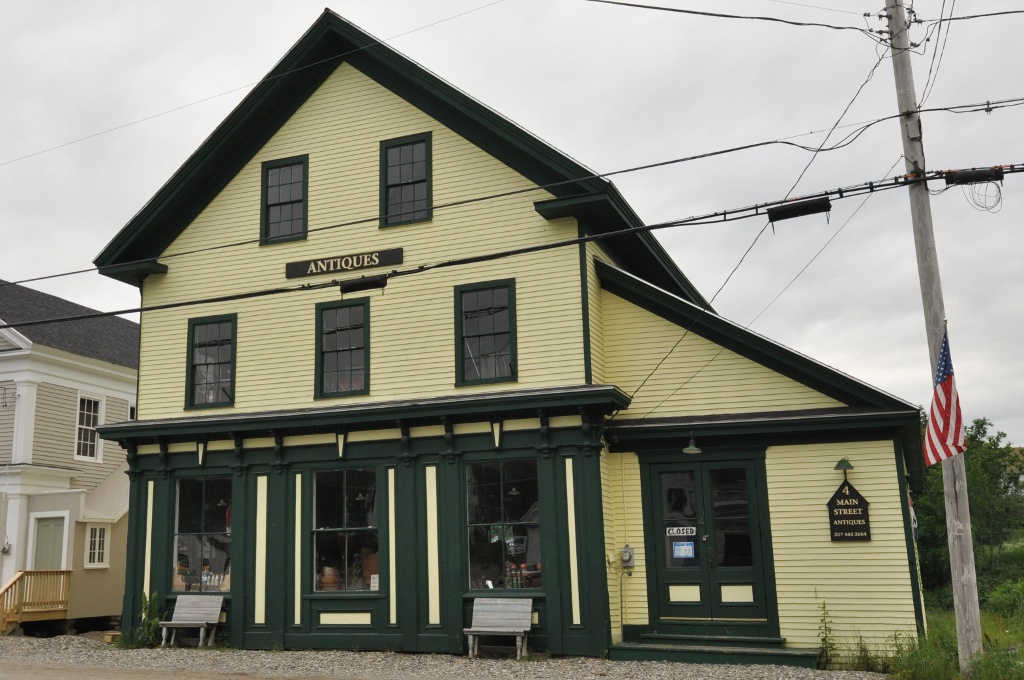 The Campbell Store building, part of the Cherryfield Historic District, Cherryfield, Maine.